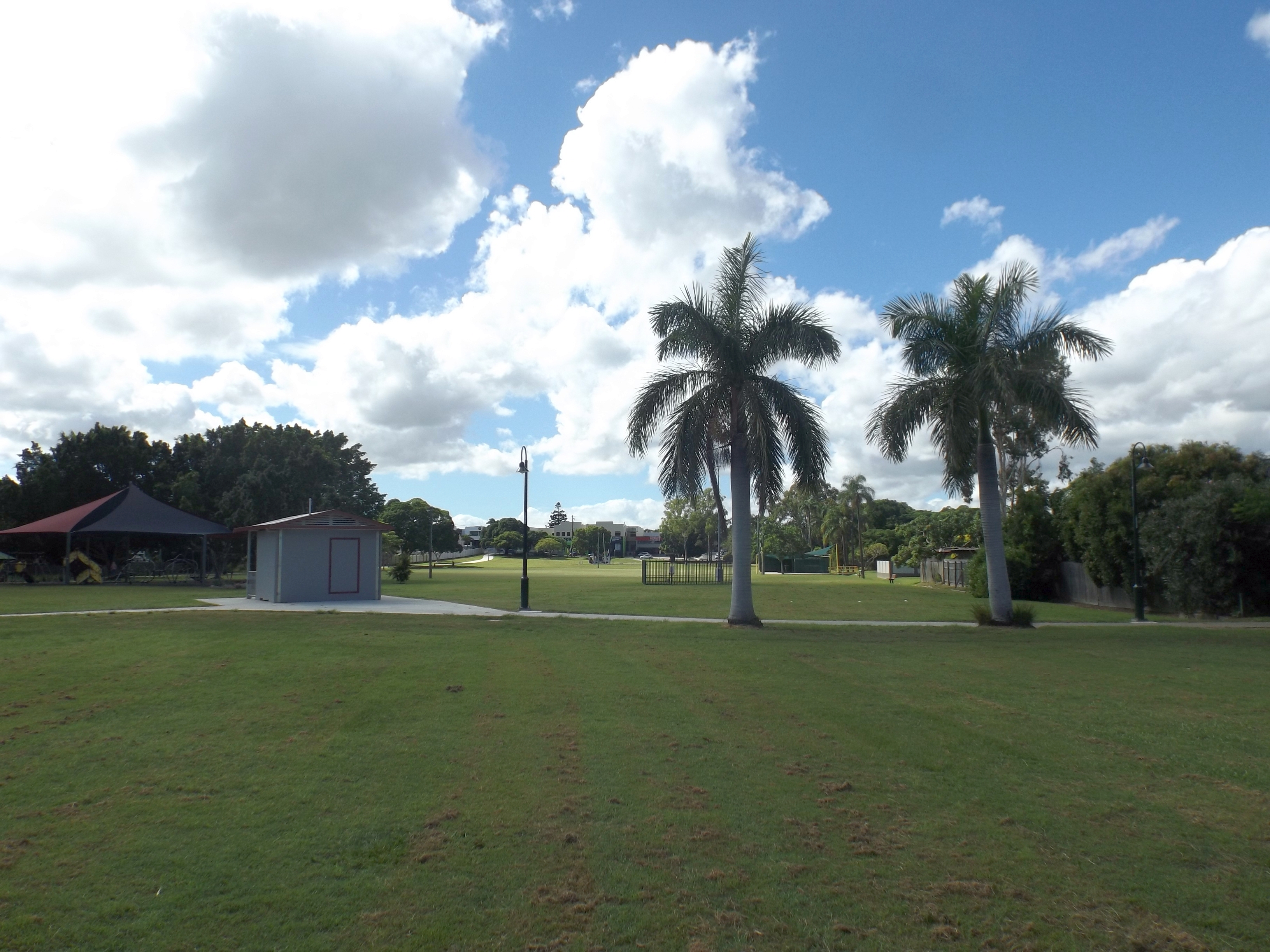 Photo of central area of Raymond Park at Kangaroo Point, Brisbane, Queensland, Australia.